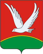 Aznakayev rayon (Tatarstan), gerb